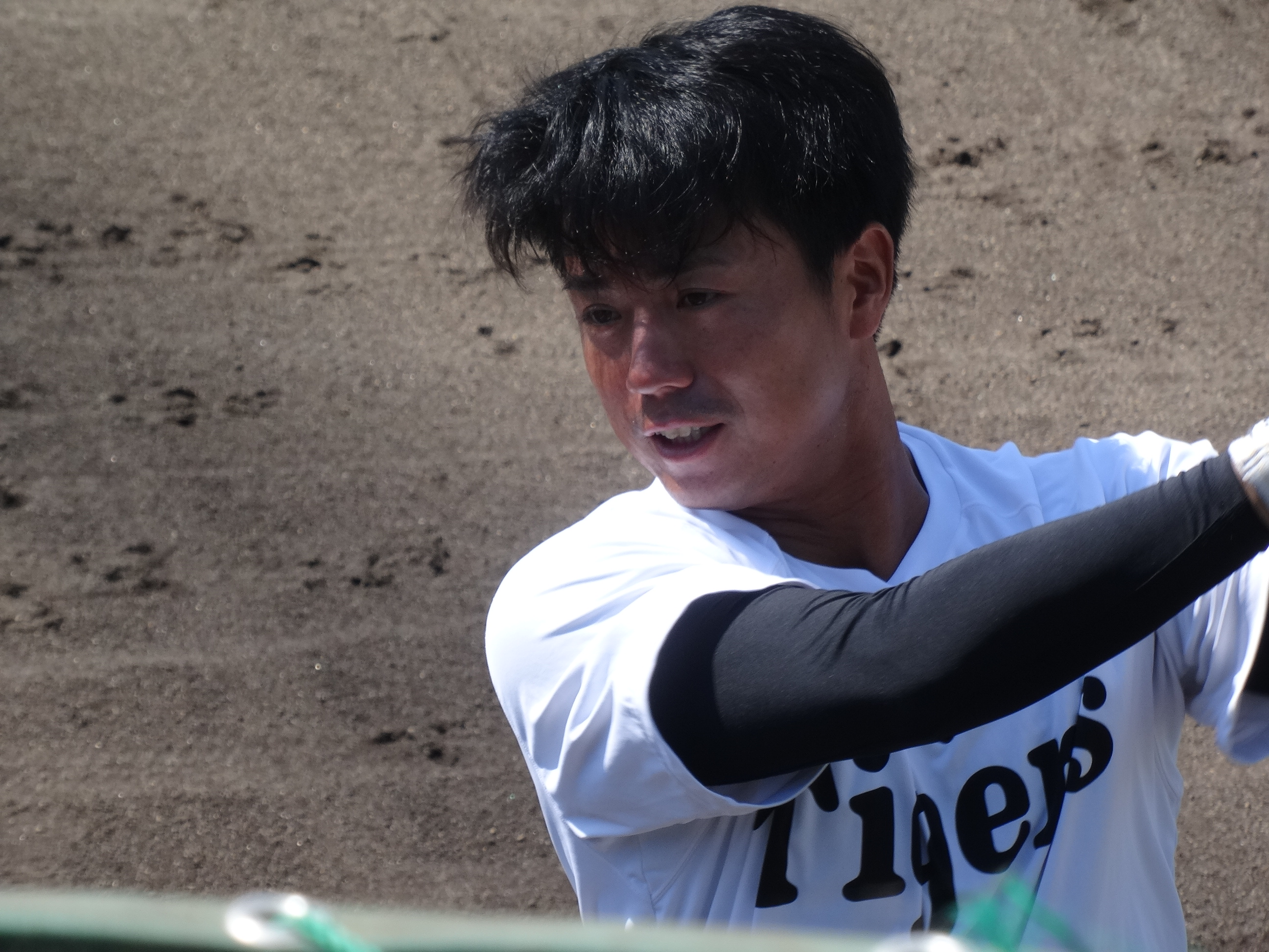 Shinji Komiyama, catcher of the Hanshin Tigers, at Hanshin Naruohama Baseball Ground